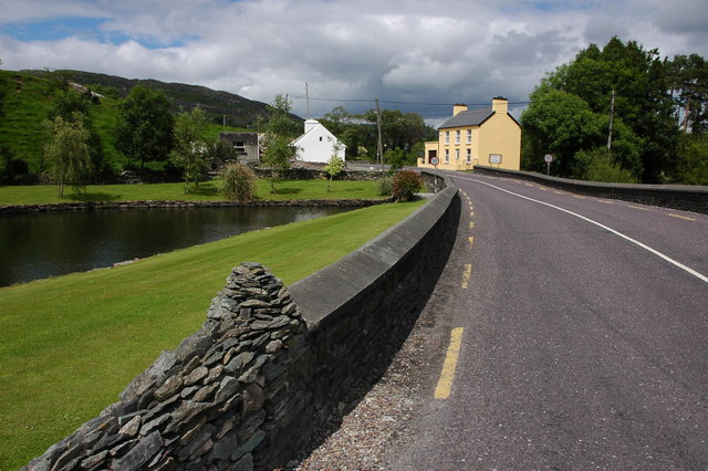 R584 road into Ballingeary crossing the River Lee